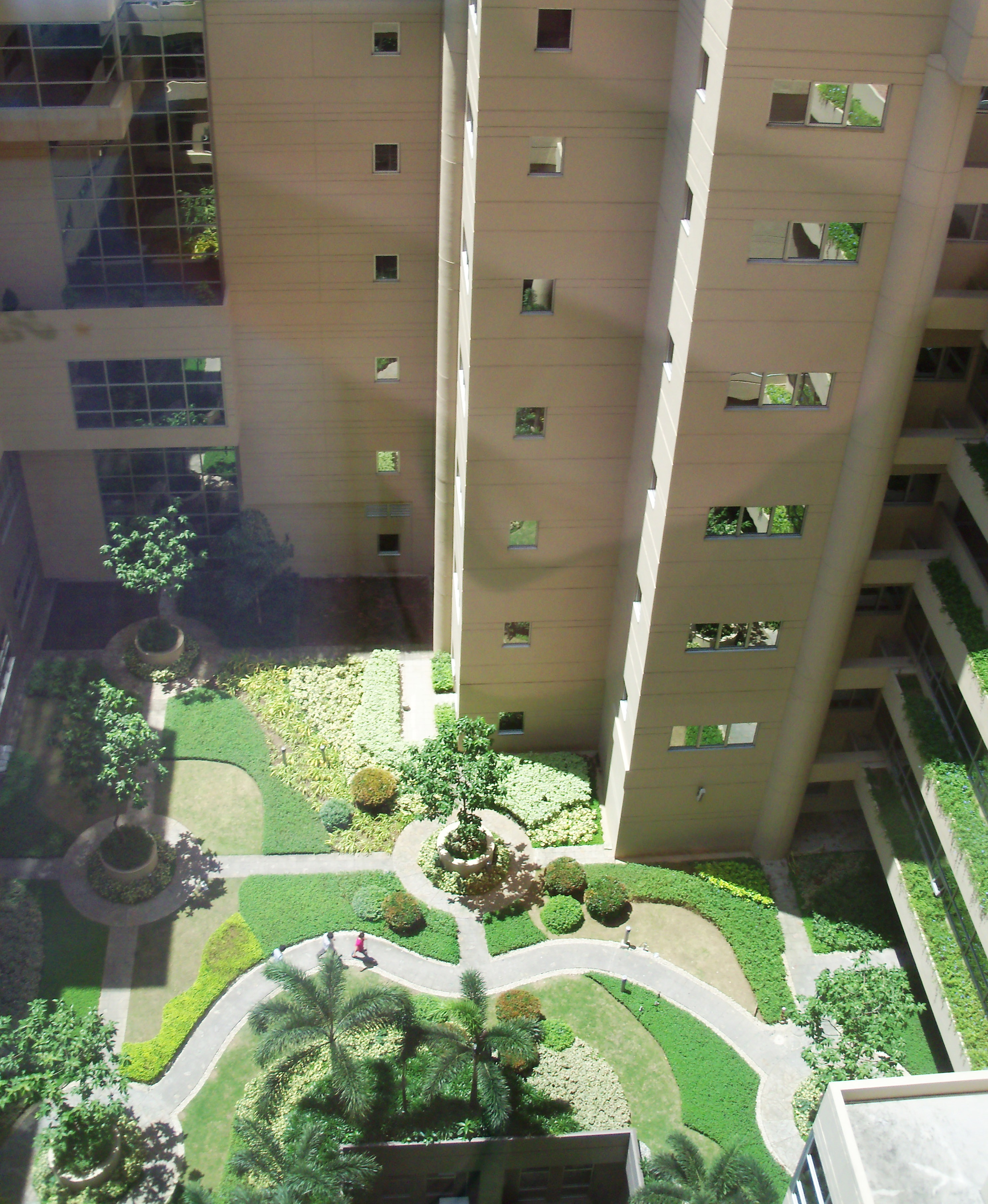 The Medical City